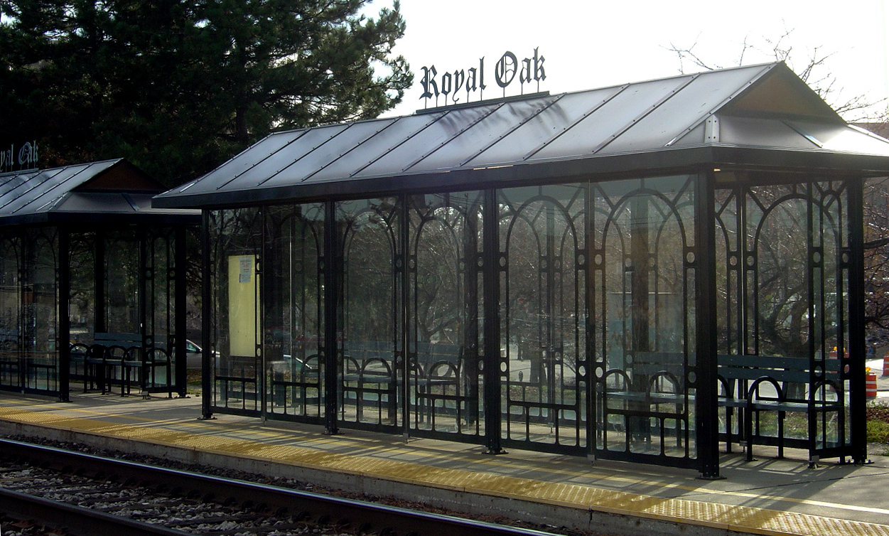 Description: Royal Oak train platform Source: Photo by stanthejeep Date: November 21,2006 Location: Royal Oak Author: stanthejeep